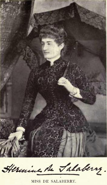 Hermine de Salaberry by William Notman